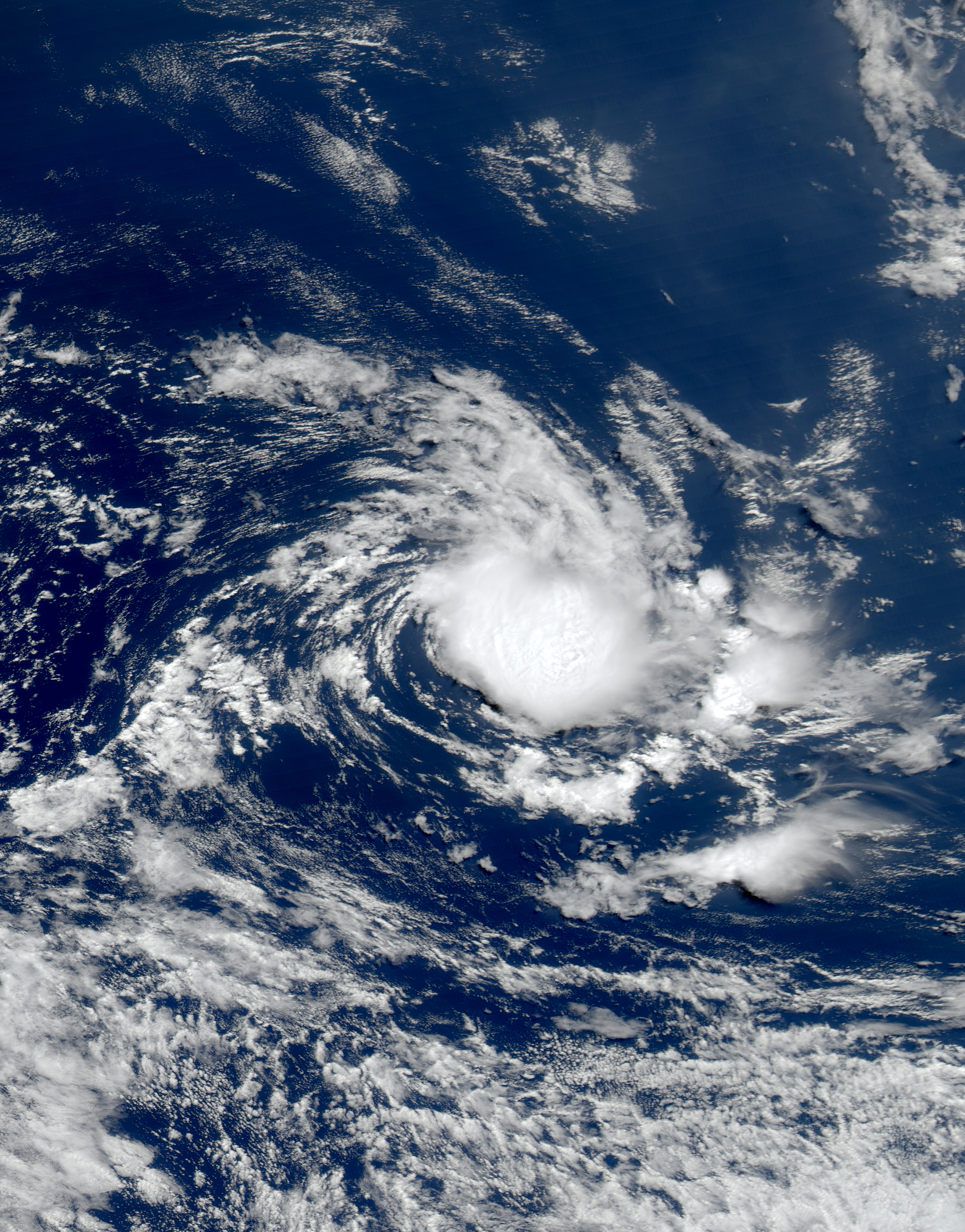 South Atlantic Tropical Storm on February 23, 2006